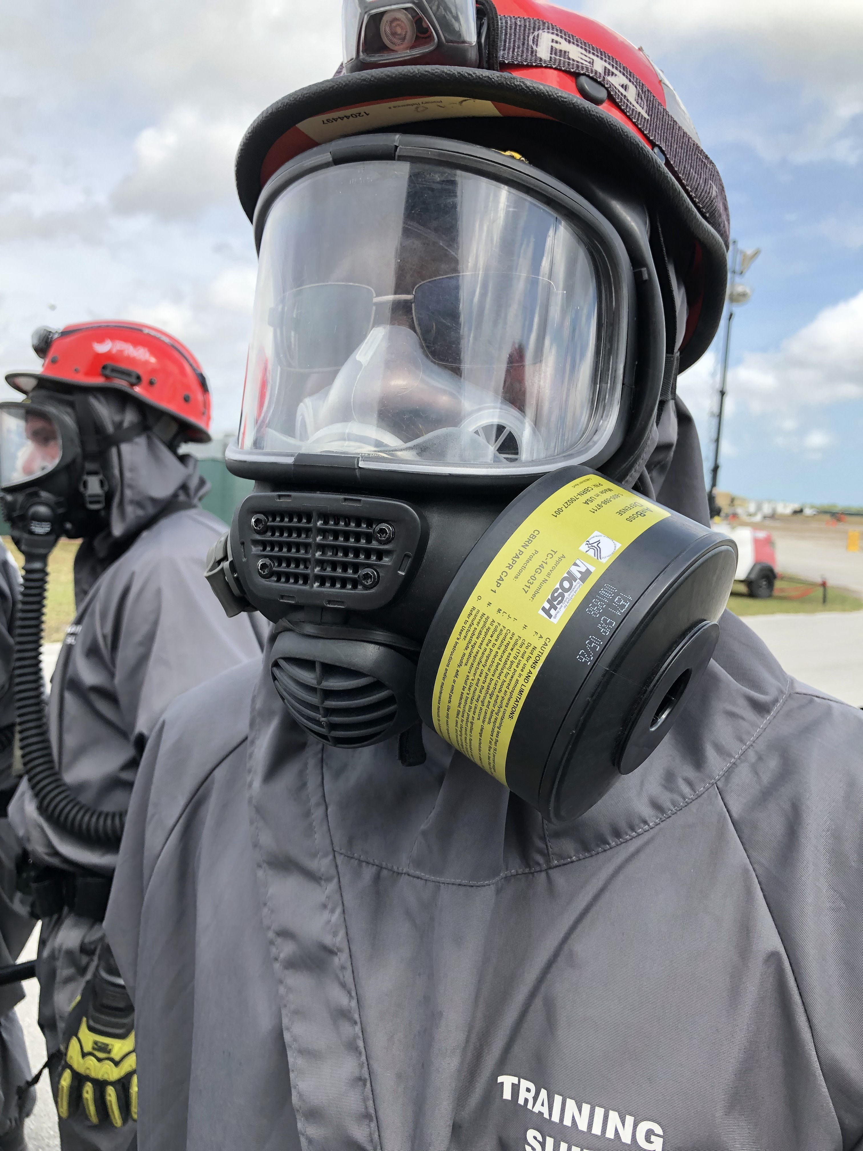 An Army Reserve Soldier with Task Force 76, CBRN Response Element (CRE), awaits his marching orders during a joint training exercise Jan. 25, 2019 in Homestead, Florida. The CRE is a multi-component DoD entity that responds in the event of a catastrophic CBRN accident/incident, to conduct direct life-saving and critical life-saving enabling tasks for CBRN response operations in support of civil authorities in the United States and U.S. Territories in order to save lives, minimize human suffering, maintain public confidence, and mitigate the effects of CBRN incidents.